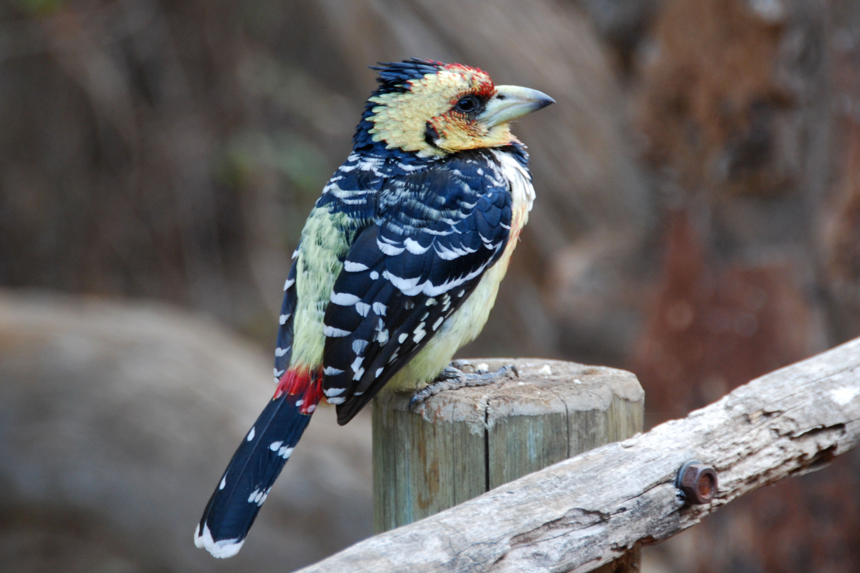 Crested Barbet. Photgraphed in the Madikwe Game Reserve, South Africa. August 2008.